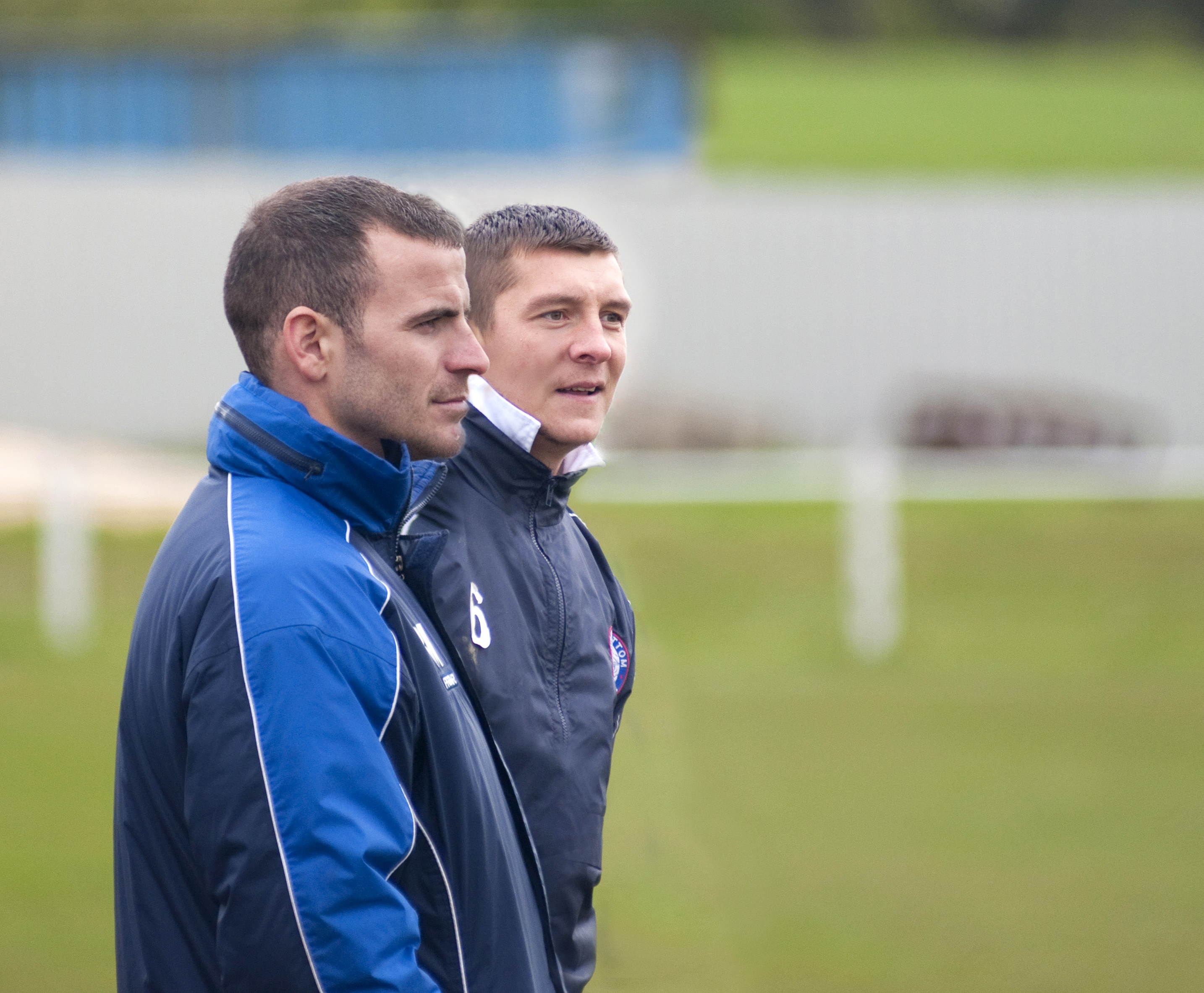 Ramsbottom United's young managers Bernard Morley (left) and Anthony Johnson during promotion season 2011-2012.